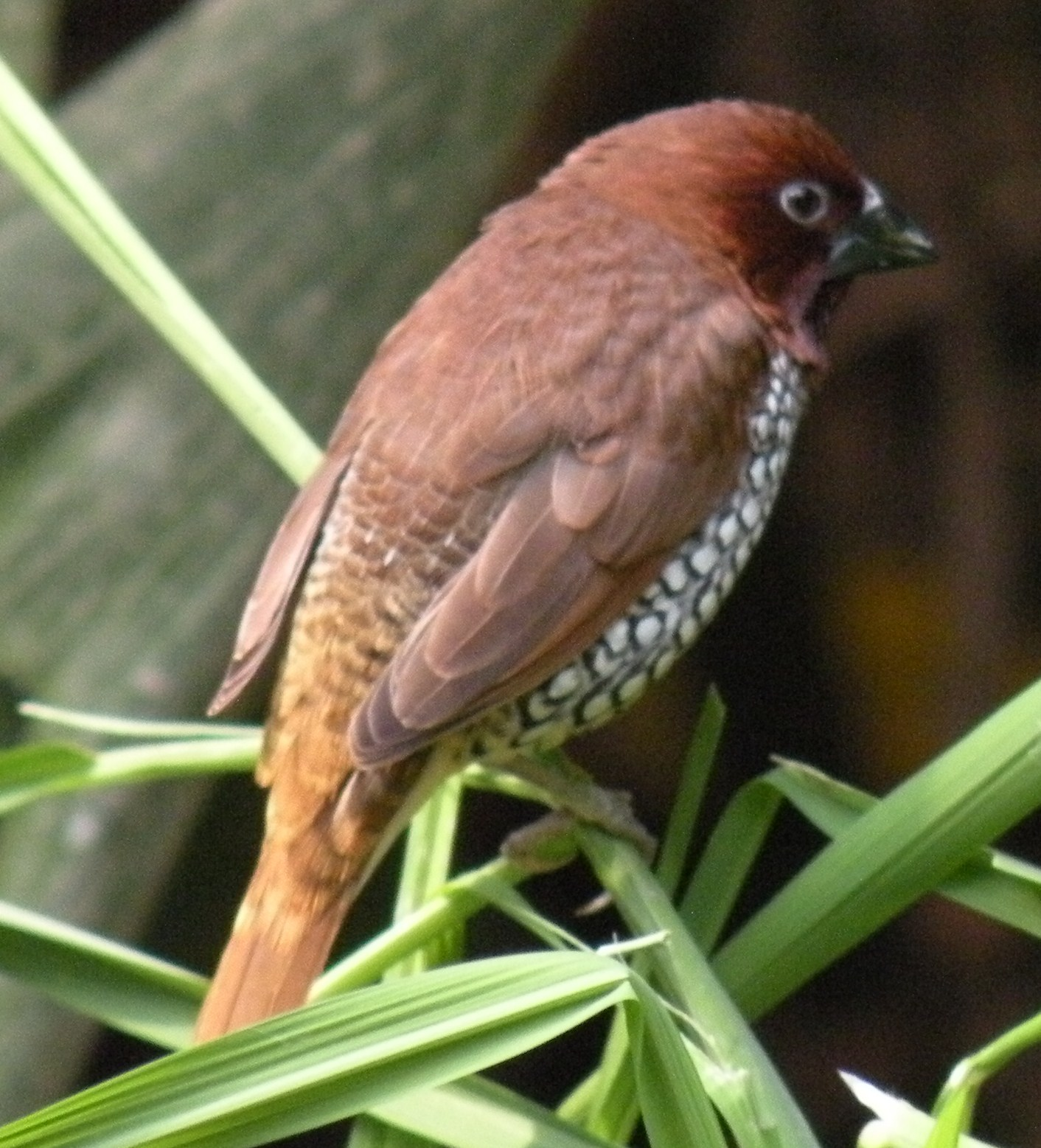 A Scaly-breasted Munia (Lonchura punctulata) in Avifauna, Alphen aan de Rijn, The Netherlands